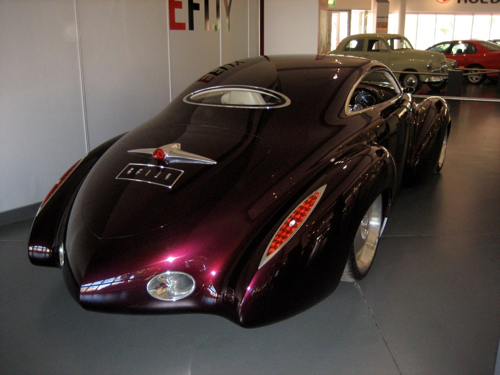 Rear view of the Holden Efijy concept vehicle taken at the National Motor Museum in the Adelaide hills.